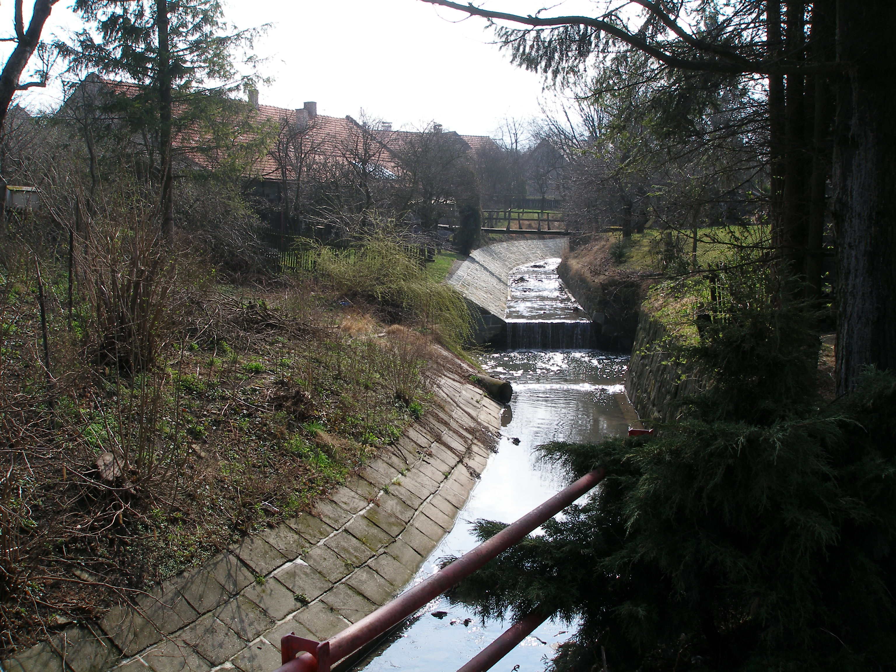 Papakův potok (Papak's stream) in Mořkov.